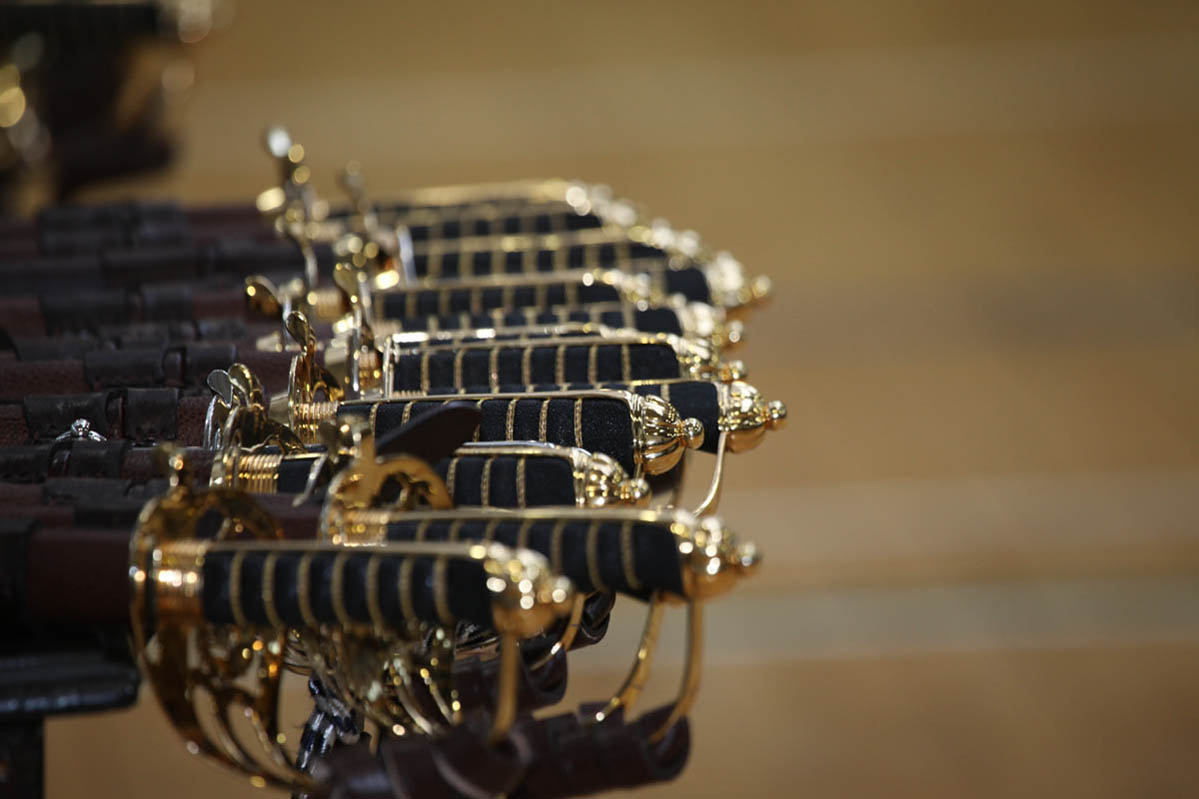 85th Cadet Class Commissioning took place in the DFTC on jan 21st 2010